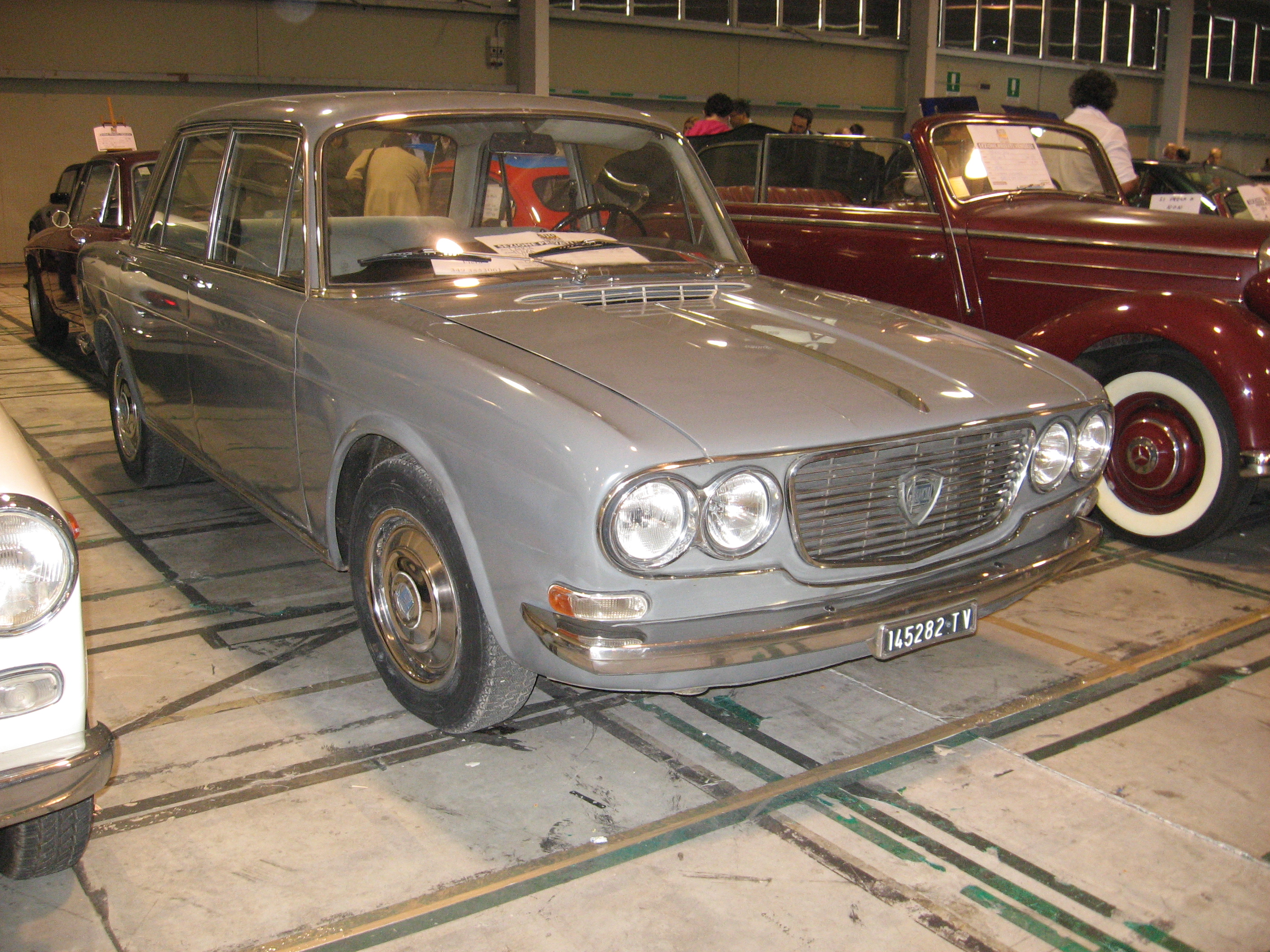 Subject: Lancia Flavia Mk2 1.8 Date:October 26th, 2008 Event: Auto e Moto d'Epoca 2008 Place/Country: Padova, Italy I release all rights in the public domain.